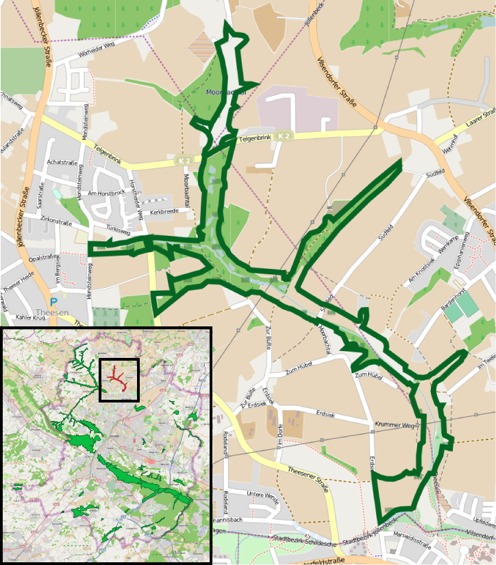 Bielefeld - Nature reserve Moorbachtal - overview mapNumber and borders of nature reserves are subject to frequent change. In order to facilitate reproduction of this map from openstreetmap, the following data is stored here: export boundaries: north: 52.086; west: 8.513; east: 8.553; south: 52.058; mapnik svg, scale 1:22.000 nature reserve boundary stroke weight 10.0; nature reserve stroke color: R 5, G 102, B 36; municipality border stroke weight: as found